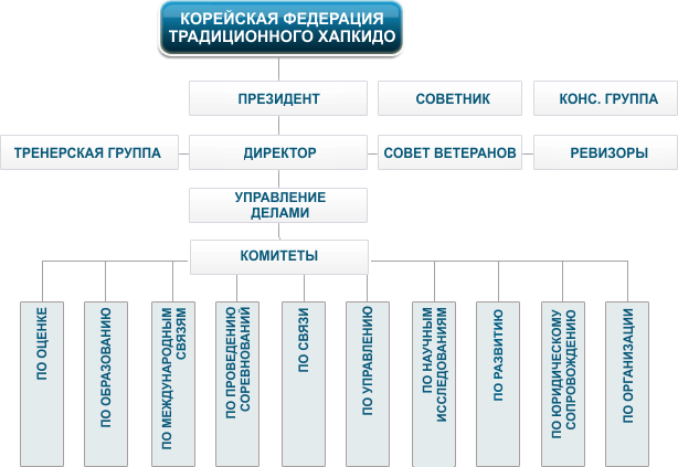 Структура KTHF